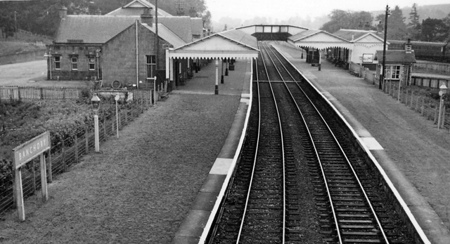 Banchory Station. View westward, towards Ballater: Aberdeen - Ballater (Royal Deeside) Line, closed 28/2/66 (Goods 18/7/66).